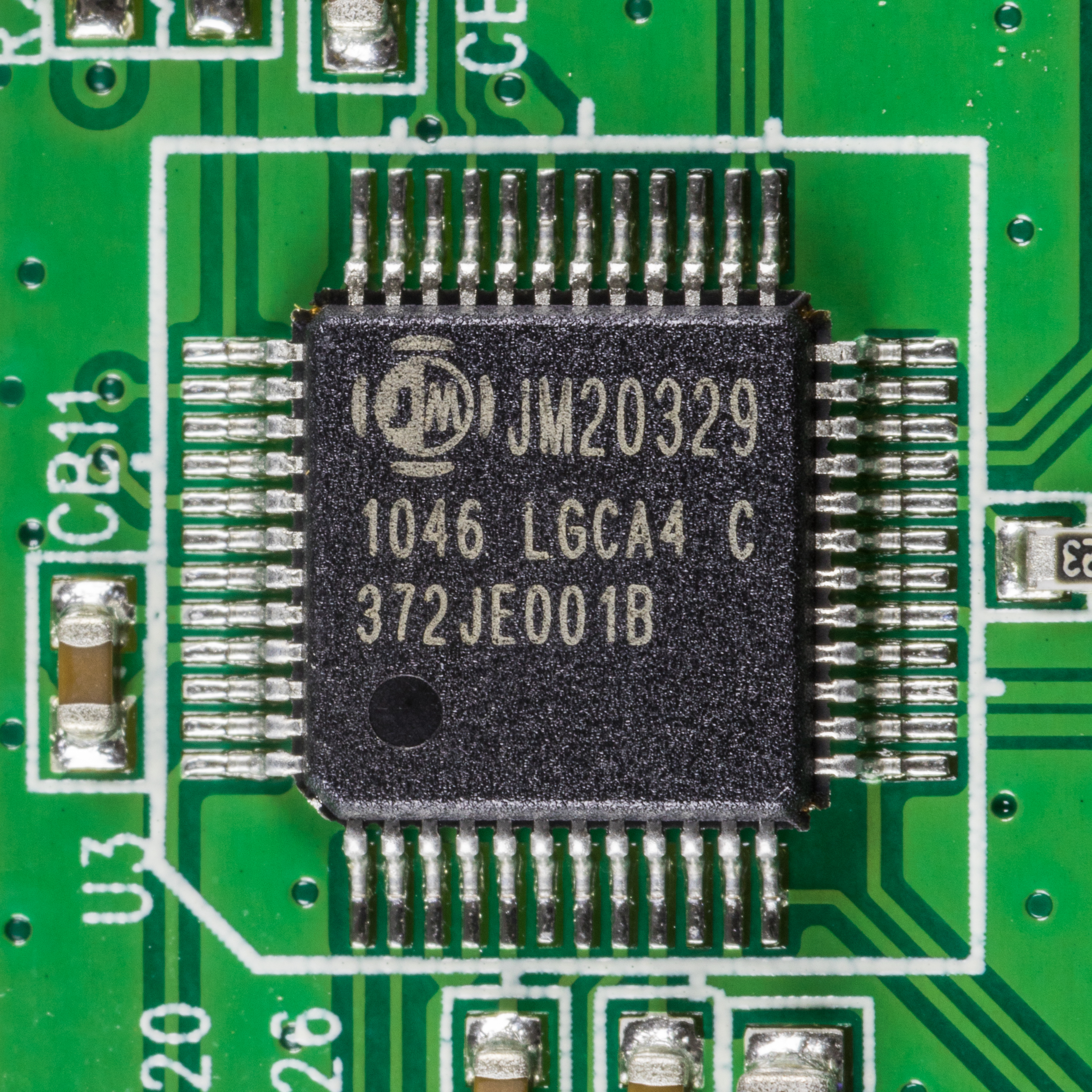 Airy by CnMemory, external hard disk - SATA 2 USB adapter EBS-J29-10 - JMicron JM20329 - Hi-Speed USB to SATA Bridge. Package: 48 LQFP